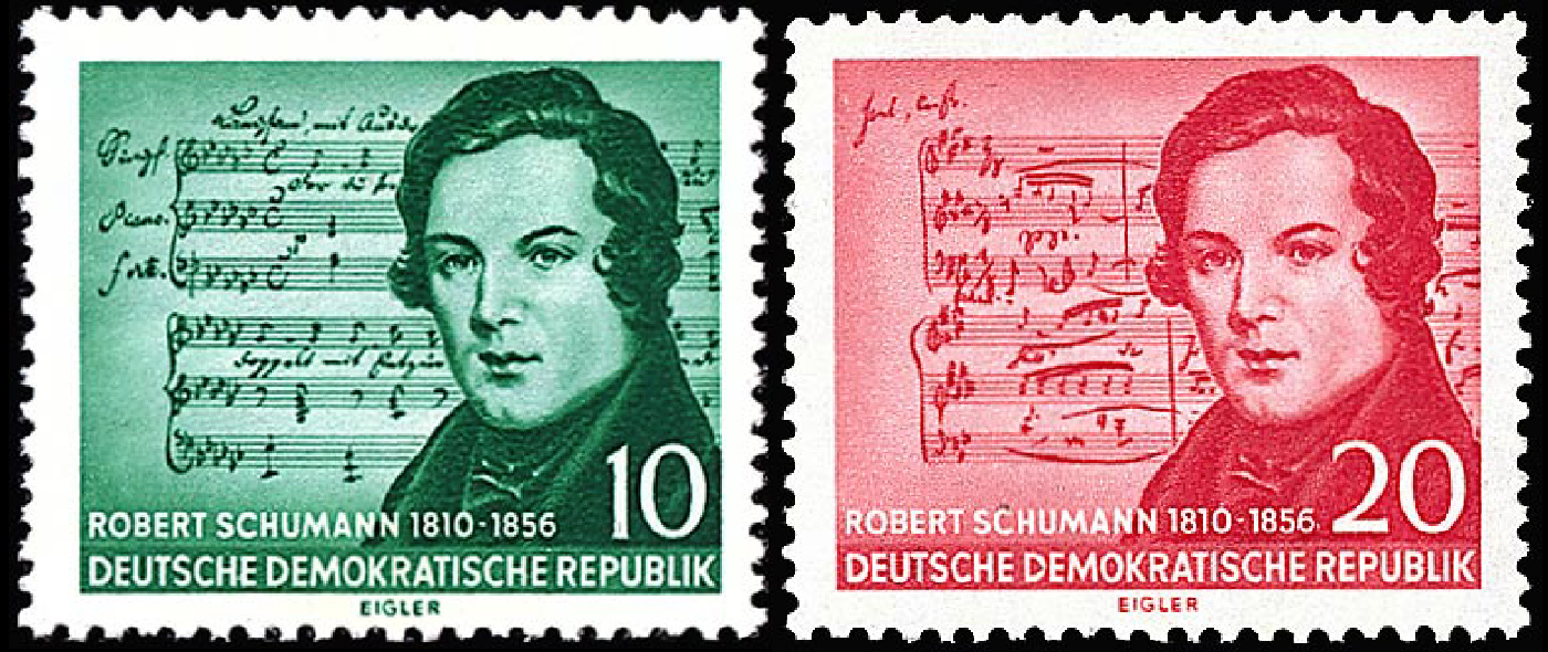 Postage stamps of GDR, Schumann (music by Schubert) and Schumann (music by Schumann), 10 Pf and 20 Pf, 1956